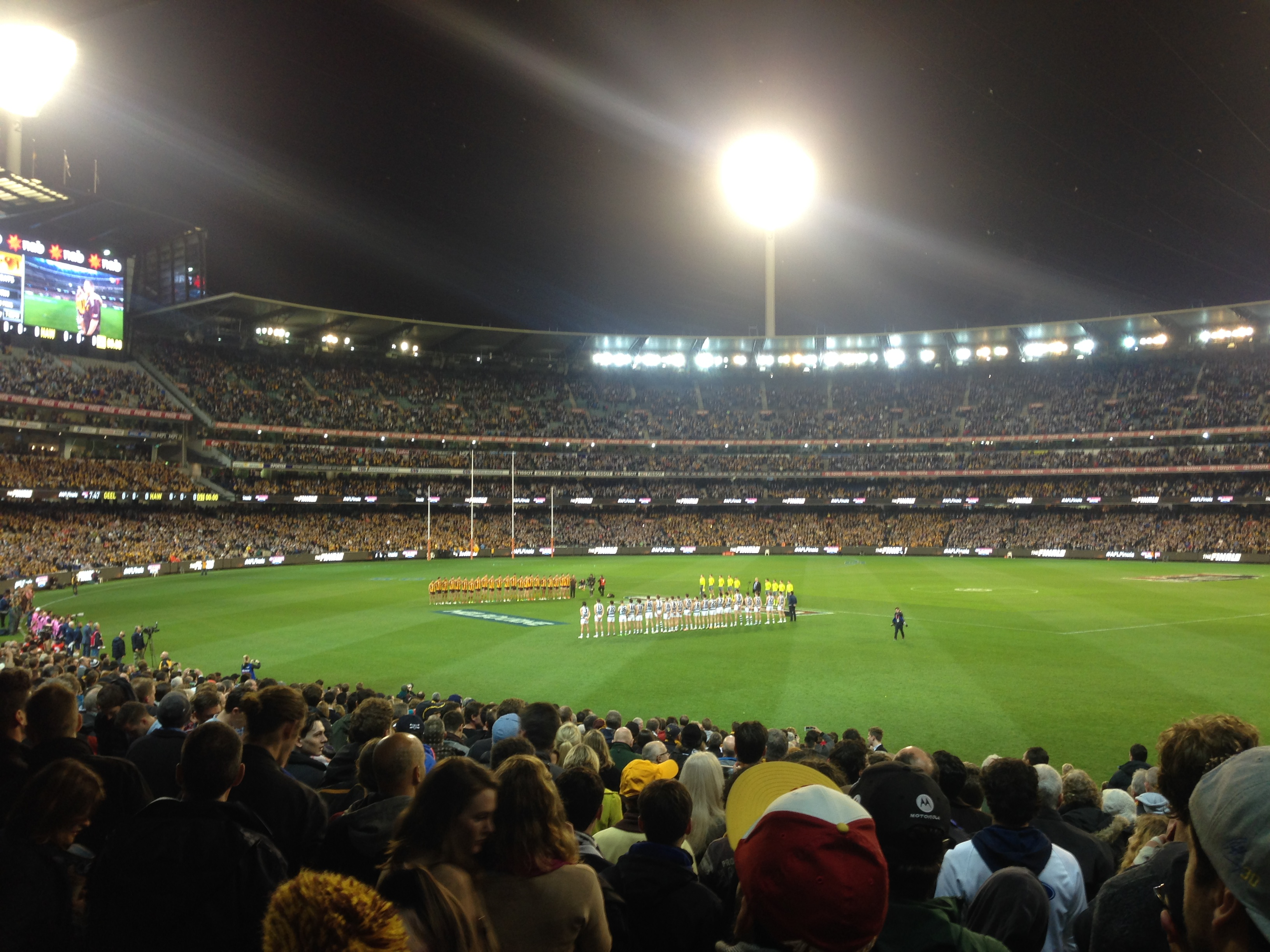 2016 AFL qualifying final at the MCG between Geelong and Hawthorn. Both teams are lined up as the national anthem plays before the match begins.